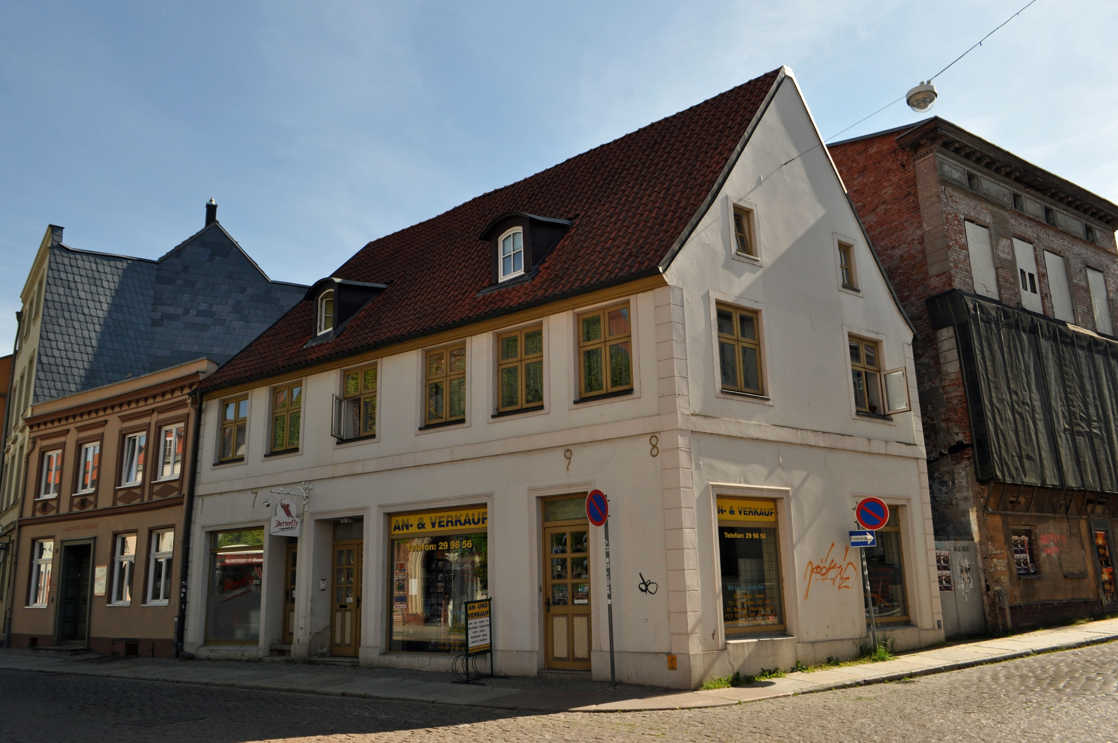 Stralsund, Wasserstraße 36 This is a photograph of an architectural monument.